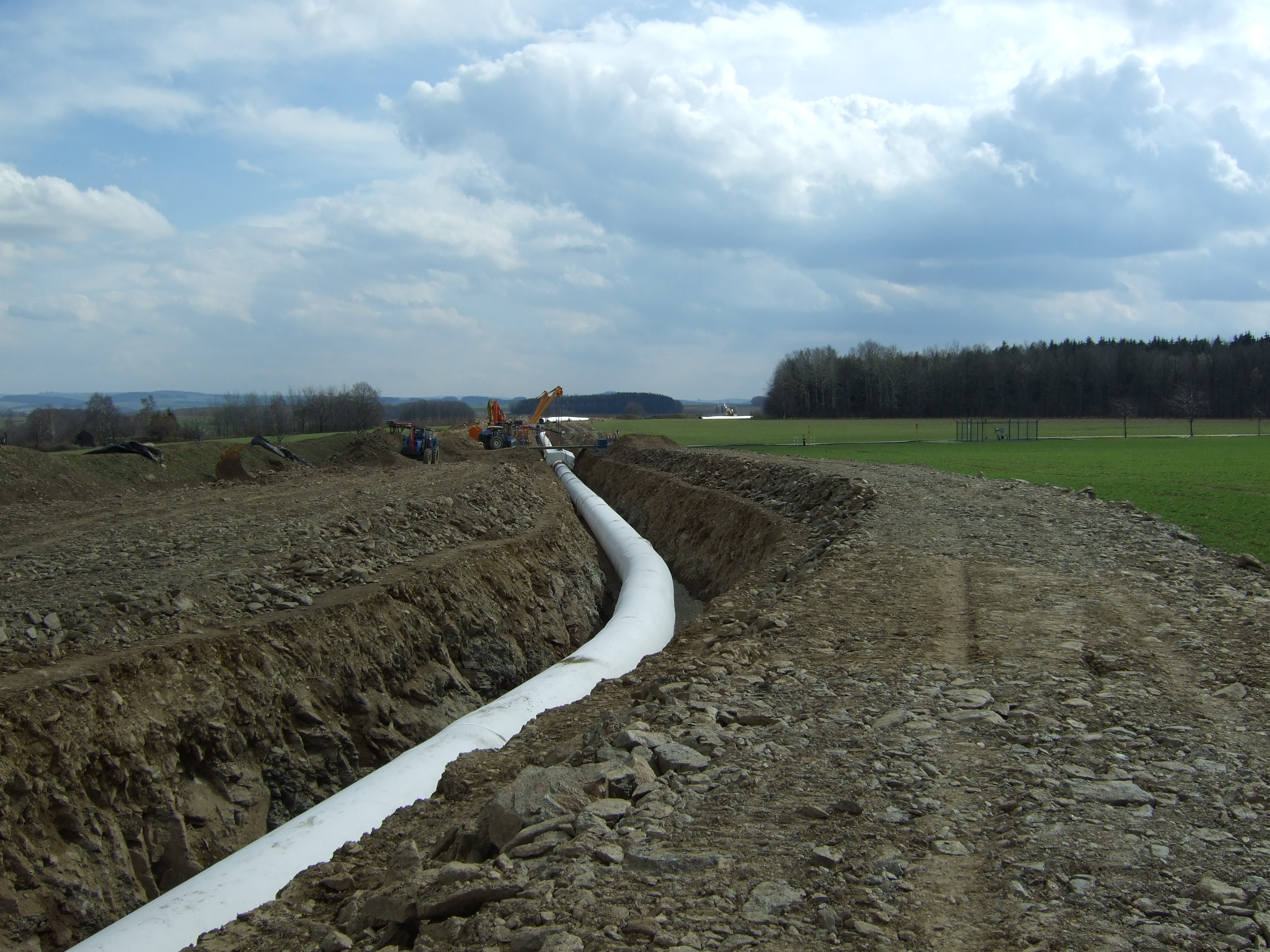 Tubes of OPAL pipeline at the Juchhöh near Weißenborn.